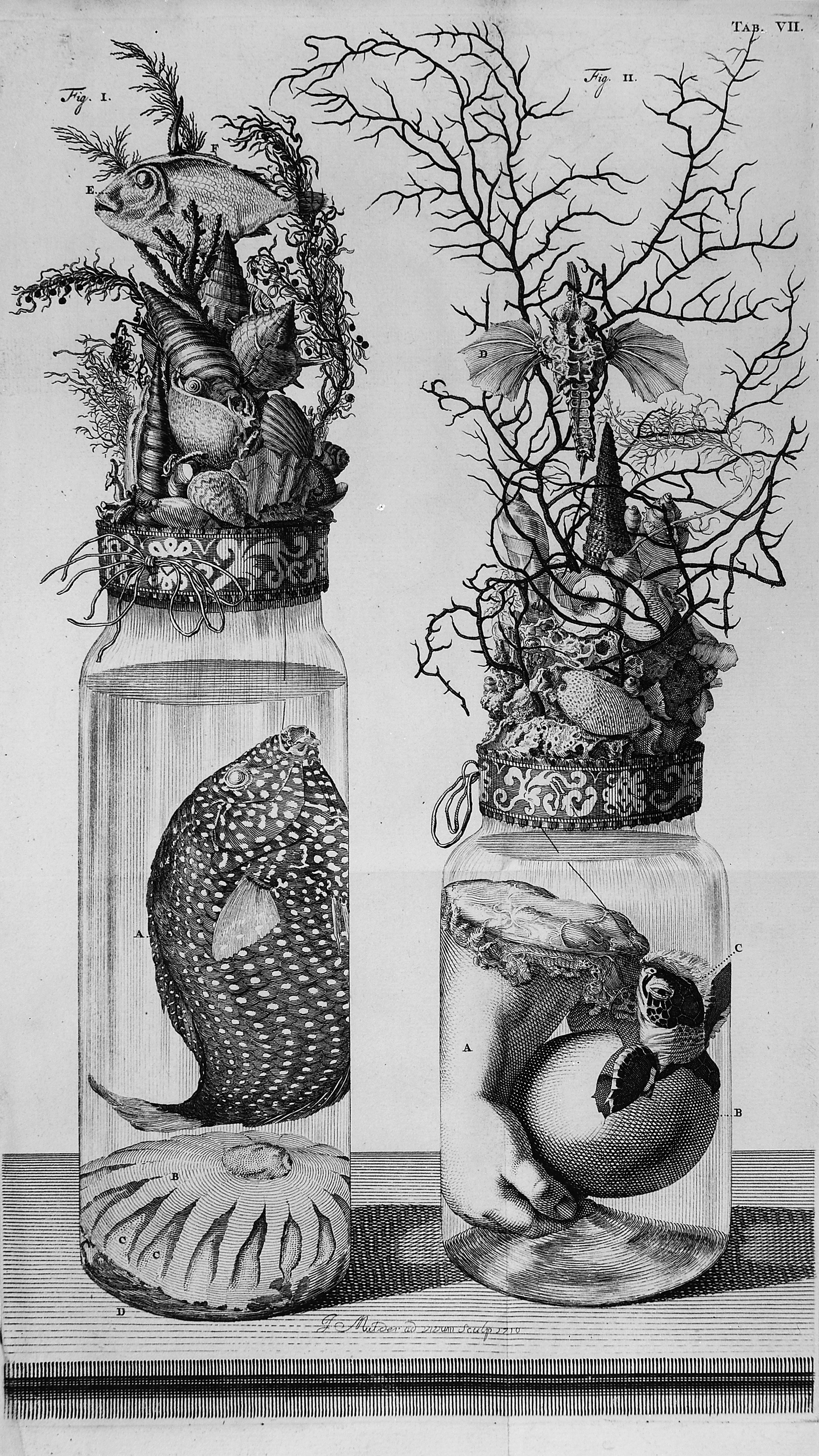 Botanical and zoological preparations including a turtle's egg with part of the foetus shown. Rare Books Keywords: Embryology